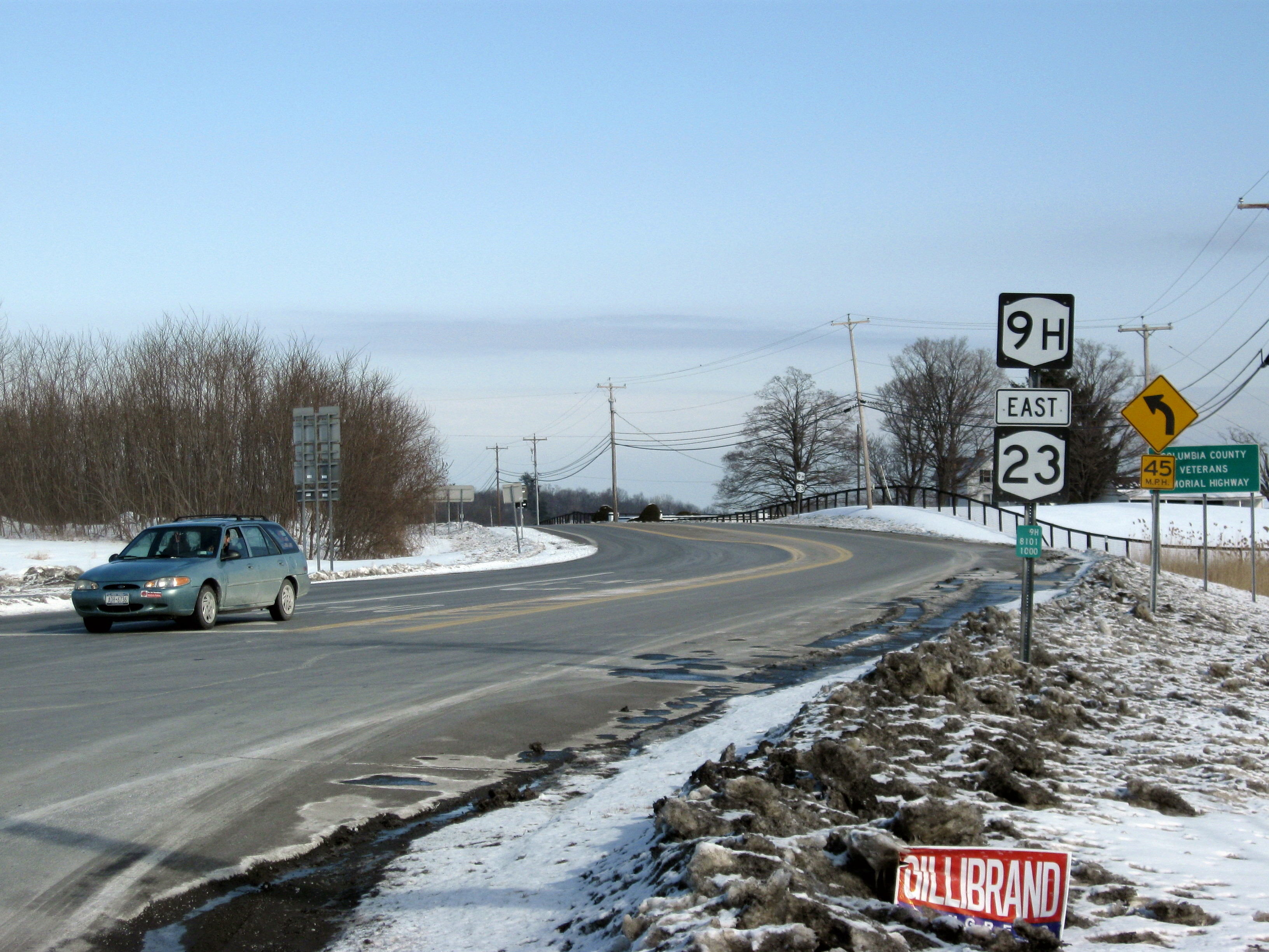 The southern beginning of NY 9H at US 9, NY 23 and NY 82 in Bell Pond, New York.